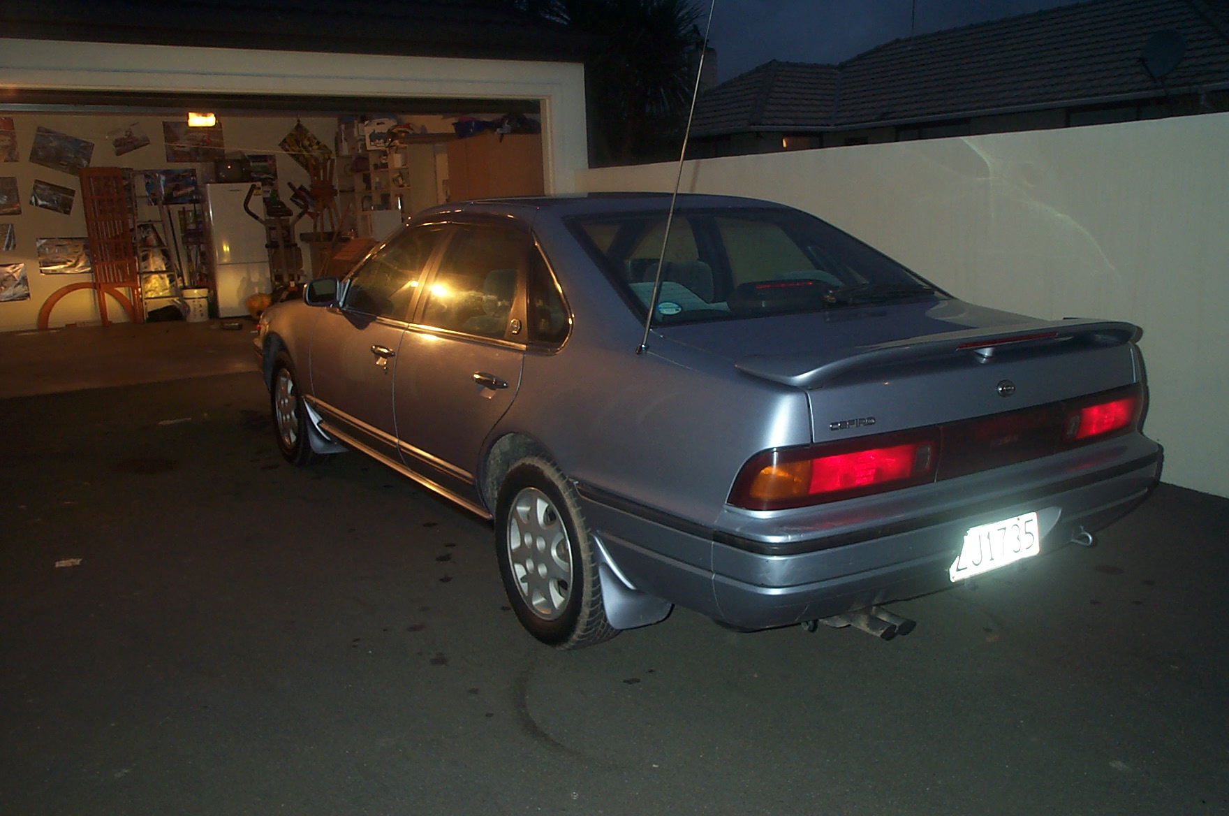 1992 Nissan Cefiro rear. Christchurch, New Zealand